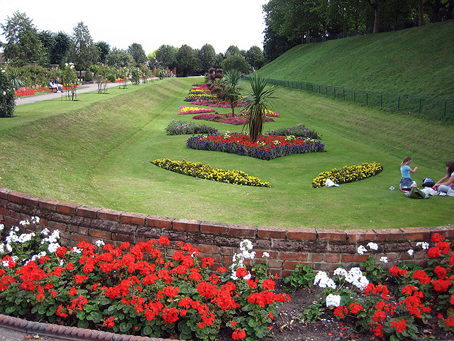 Sunken garden north of Colchester Castle. Was this once a moat? Now it's full of flowers, not water!